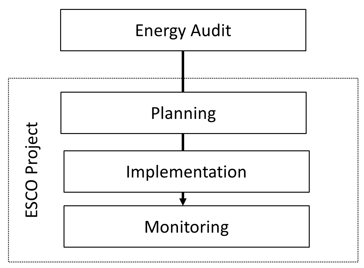 Diagram of the workflow in an ESCO project